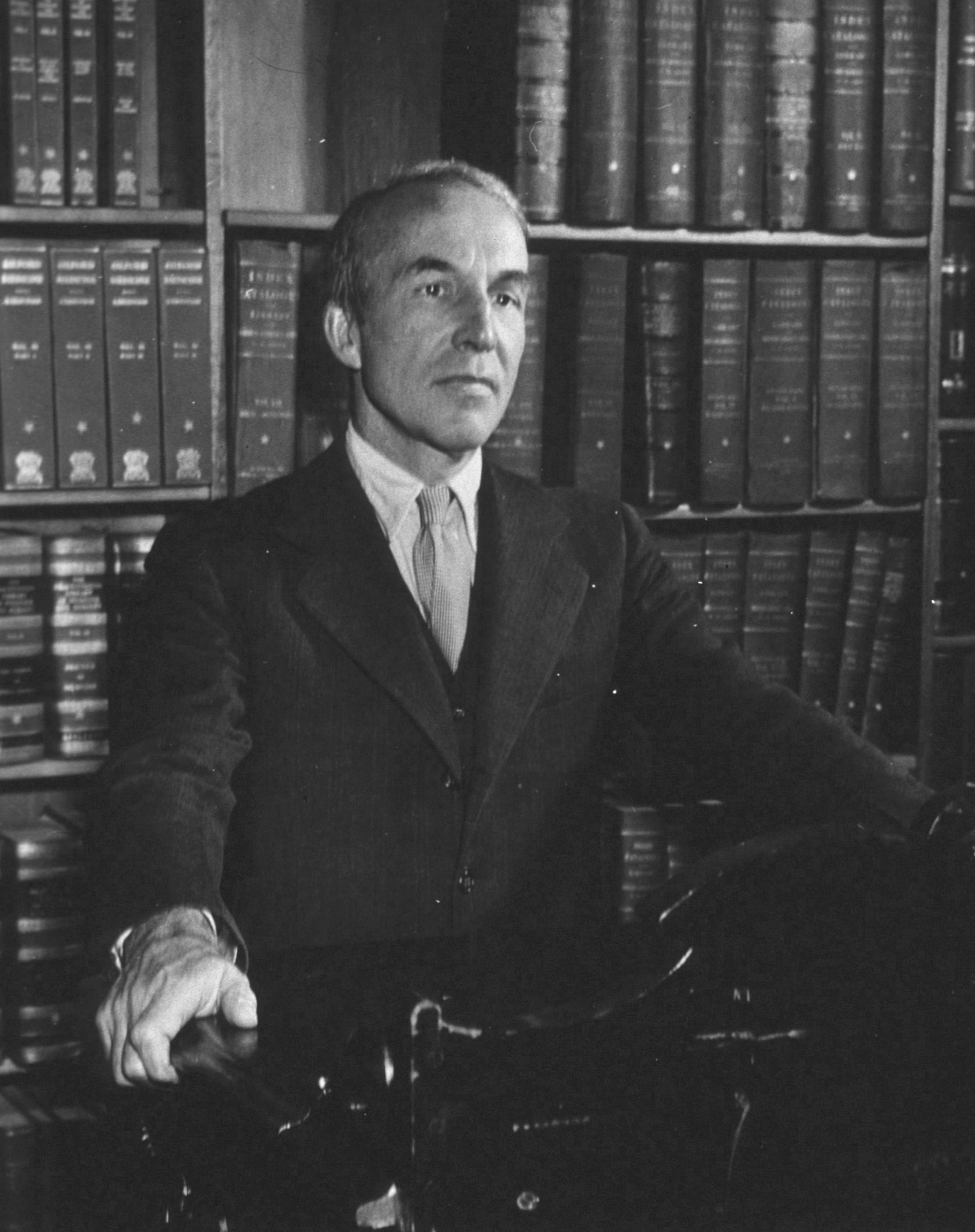 Archibald MacLeish (May 7, 1892 – April 20, 1982)